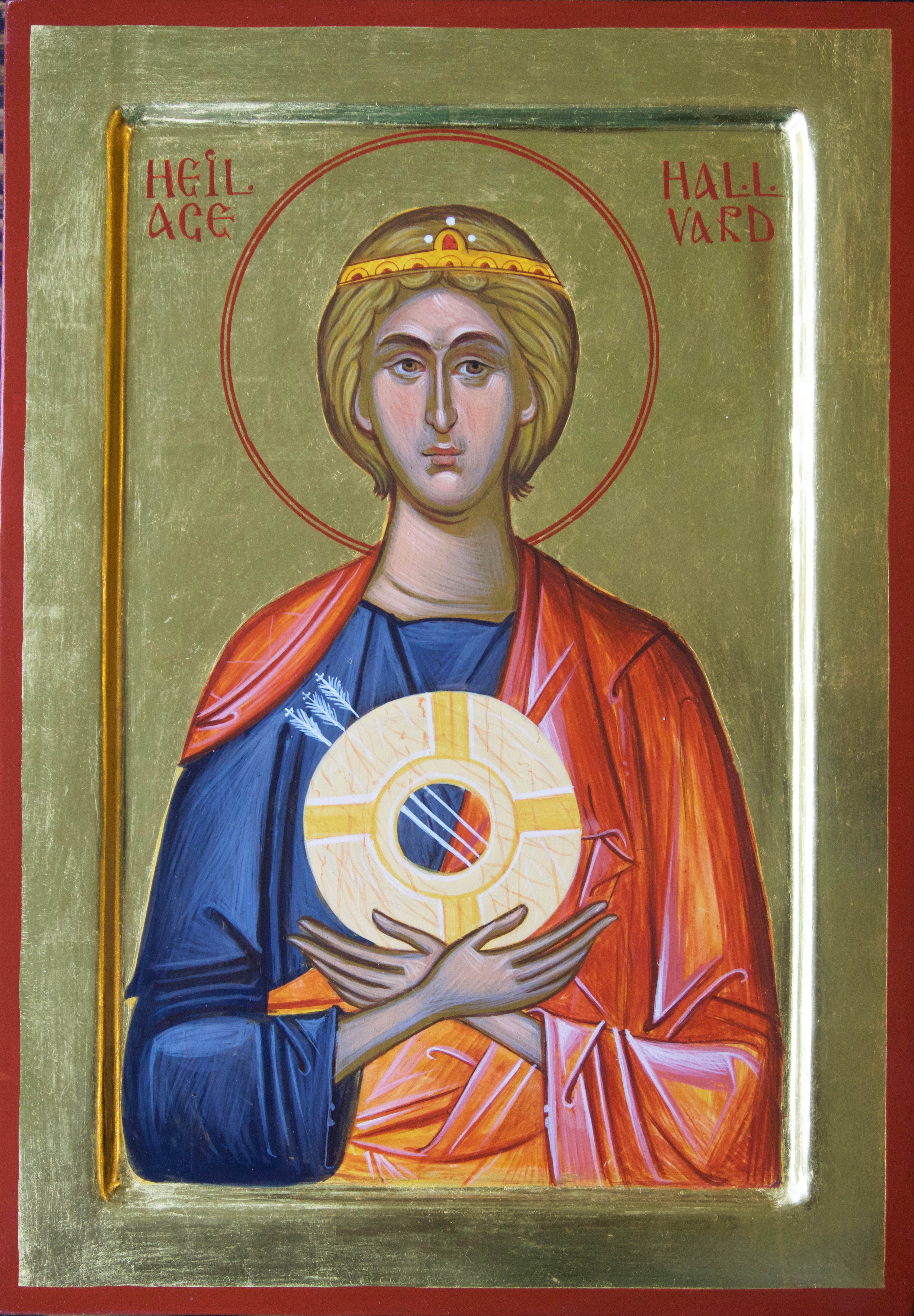 Orthodox Icon of Fr Dobromir Dimitrov